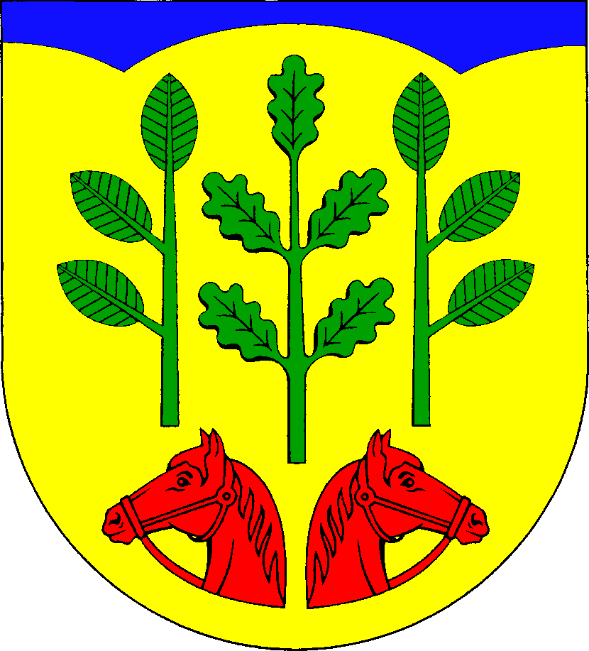 Coat of arms of the municipality Schönhorst in Schleswig-Holstein, Germany.